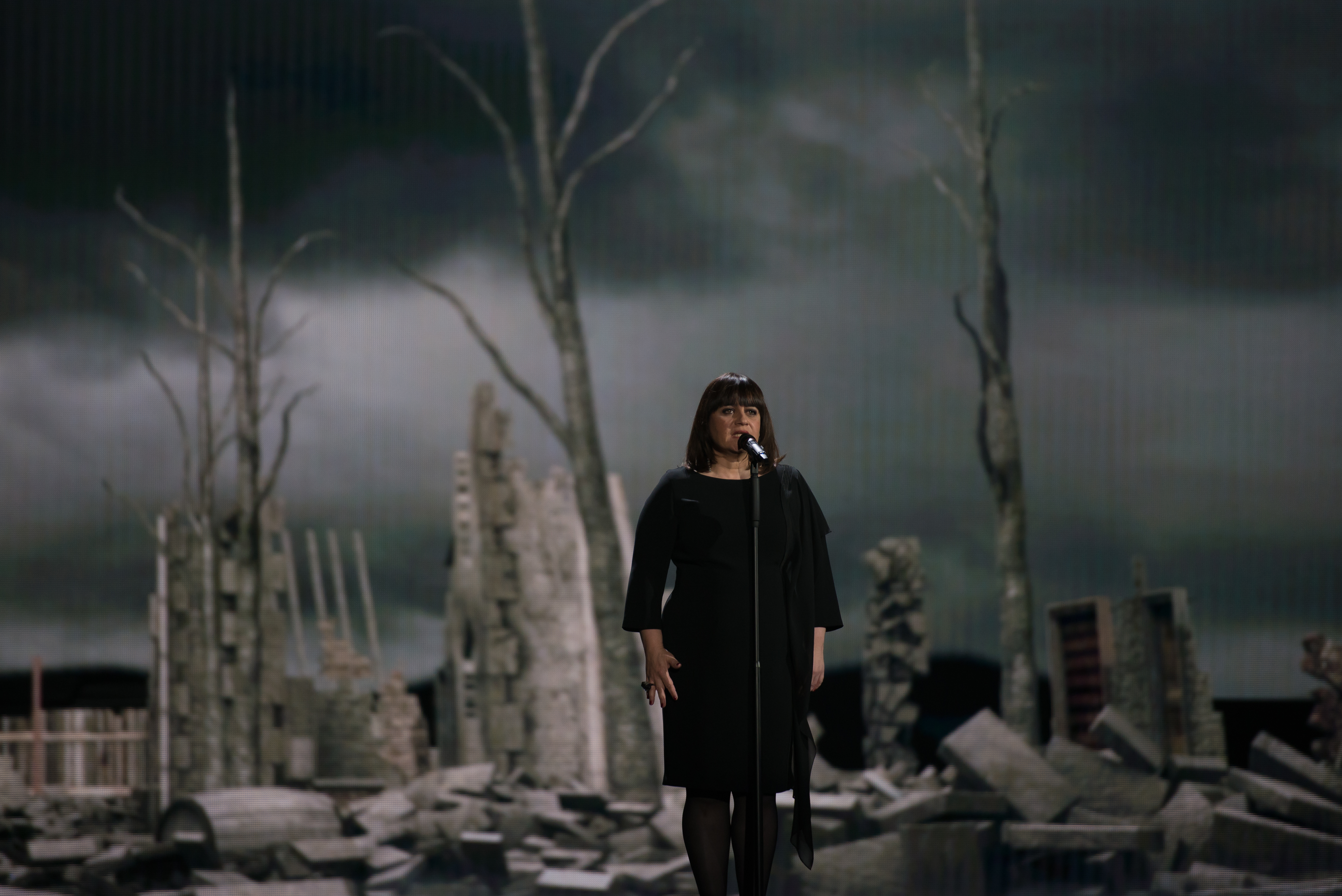 Eurovision Song Contest Vienna 2015: Lisa Angell